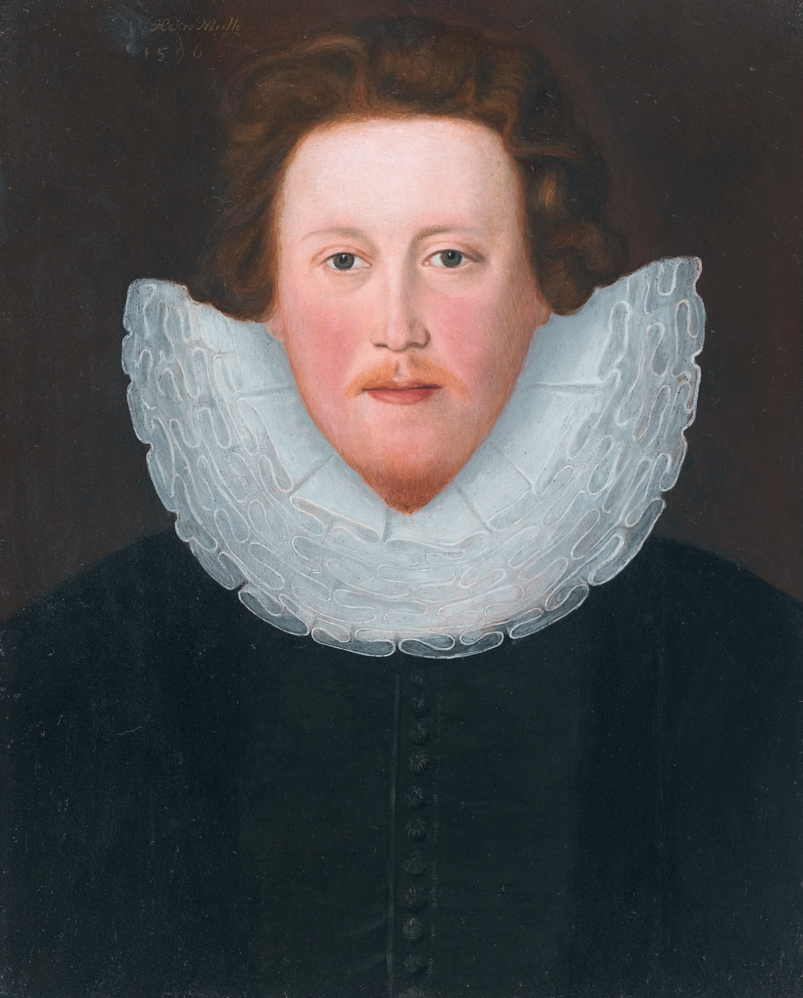 Henry Neville (1564-1615) oil on panel 53.4 x 42.6 cm inscribed t.l.: S ... R Henry Neville / 1596